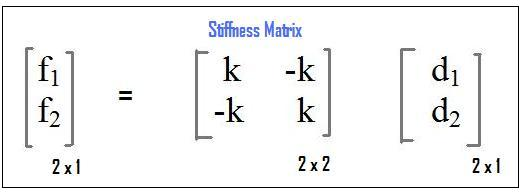 f = kd